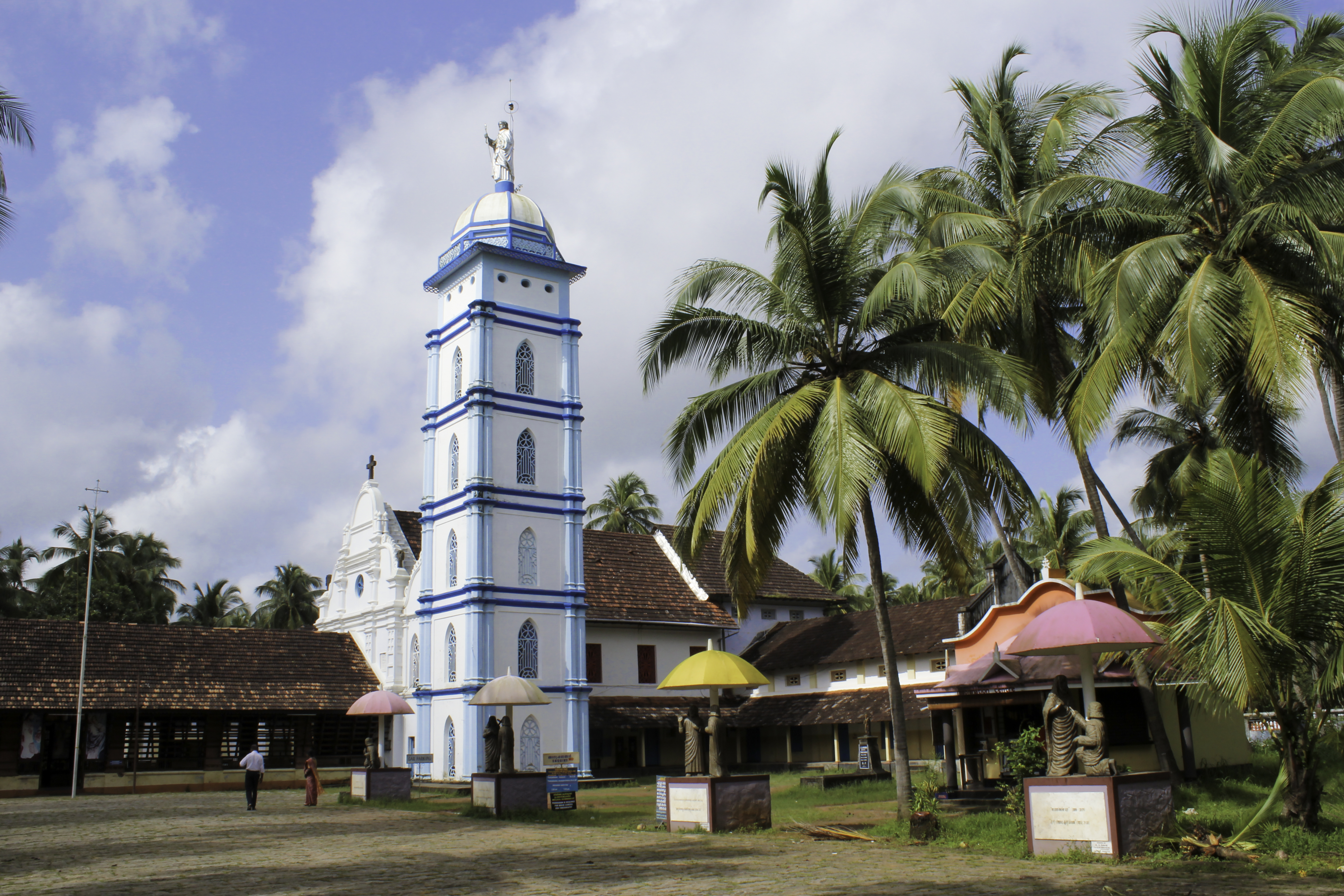 Picture of Palayoor church , where St Thomas first baptised the bharamin Presits